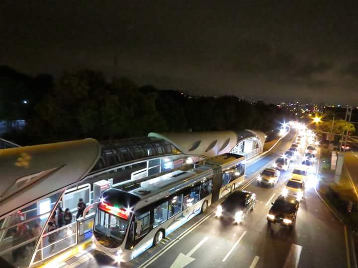 Taichung BRT Blue Line Dong Hai Bie Shu Shopping District